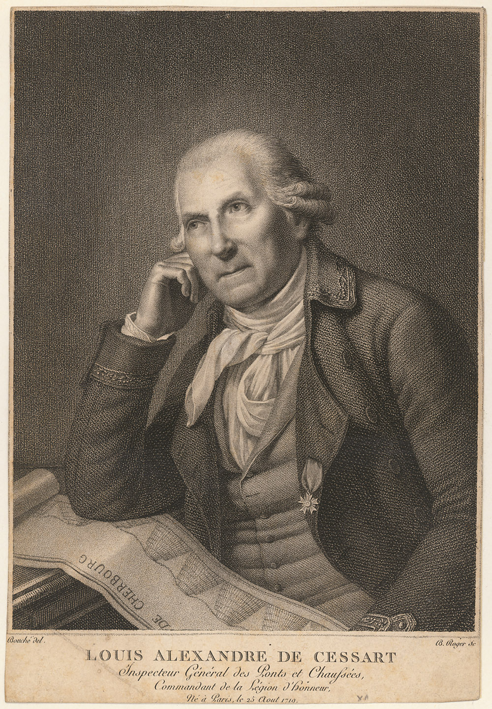 Portrait of Louis-Alexandre de Cessart (1719-1806), French engineer